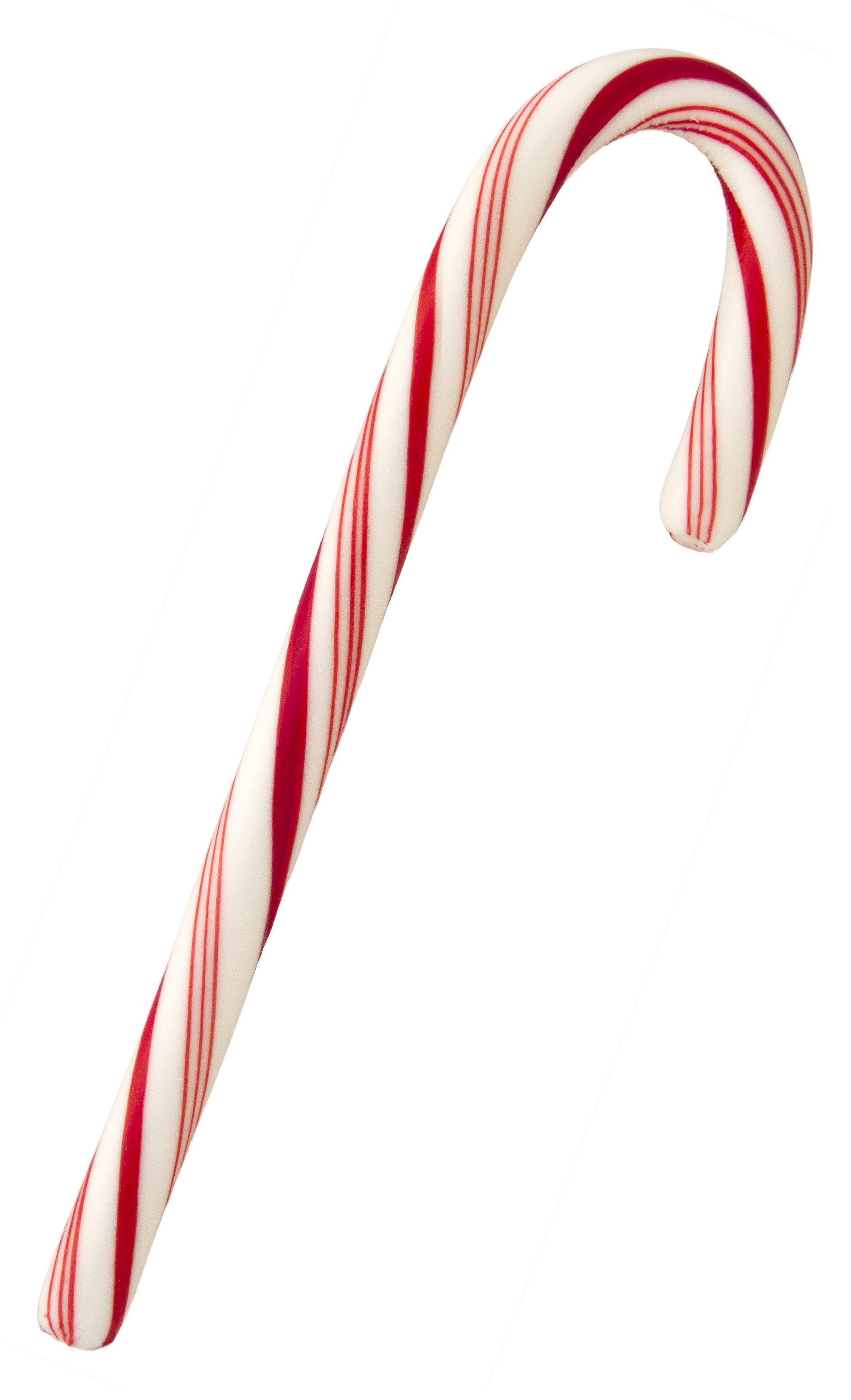 A traditional-style, red & white candy cane. This candy cane was bought during Christmas in the United States, which is the time they are almost exclusively available. There are a variety of sizes and styles of candy canes offered, with many more different styles in recent years. Candy canes are traditionally white and red with peppermint flavoring, but they are also available in different colors and flavors.